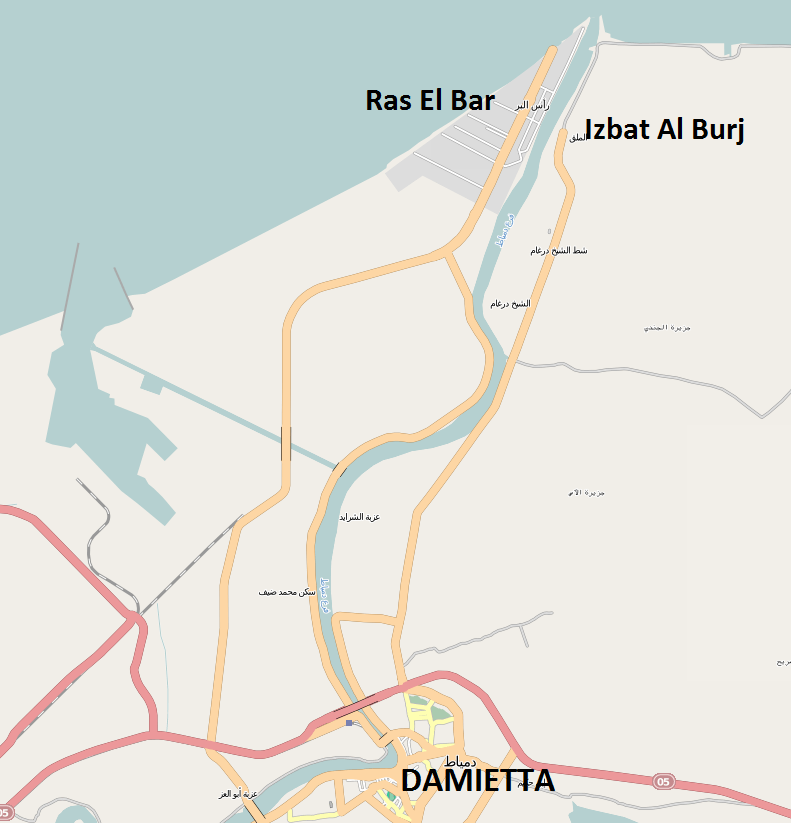 Damietta and surroundings